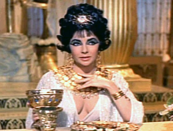 Screenshot of Elizabeth Taylor from the trailer for the film Cleopatra.